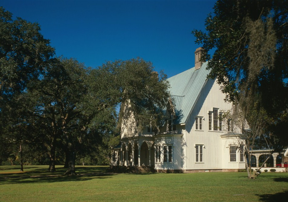 Rose Hill Plantation House, 2.5 miles Northwest of intersection of U.S. HIghwa, Bluffton vicinity, Beaufort County, South Carolina